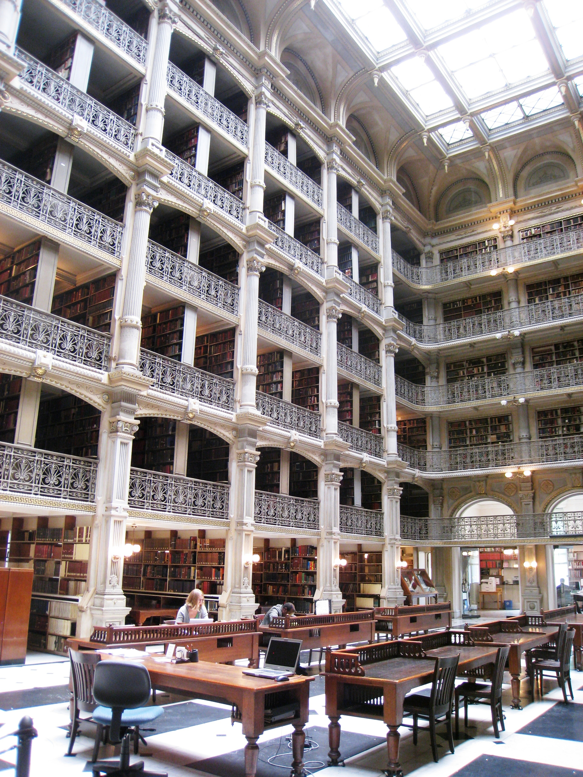 George Peabody Library in the Peabody Institute, Baltimore, Maryland, USA. The library was designed by Baltimore architect Edmund George Lind and opened in 1878. There were no prohibitions against photography in the institute. I took this photograph.